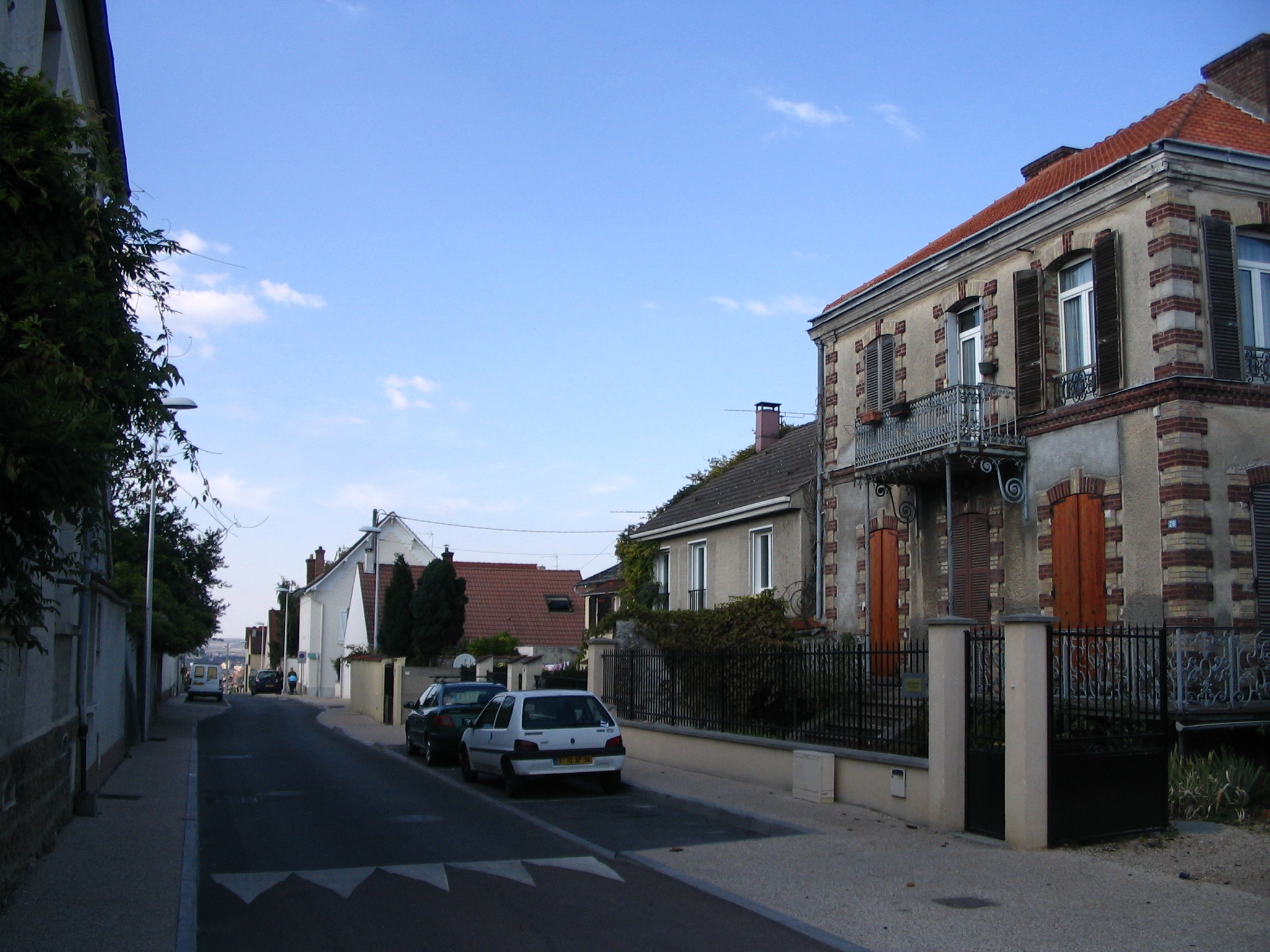 A street in Torcy, Seine-et-Marne, France.